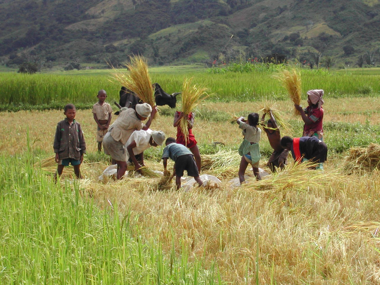 Work in the ricefield - Andapa's area - Madagascar